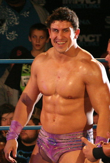 TNA wrestler Ethan Carter III (EC3)